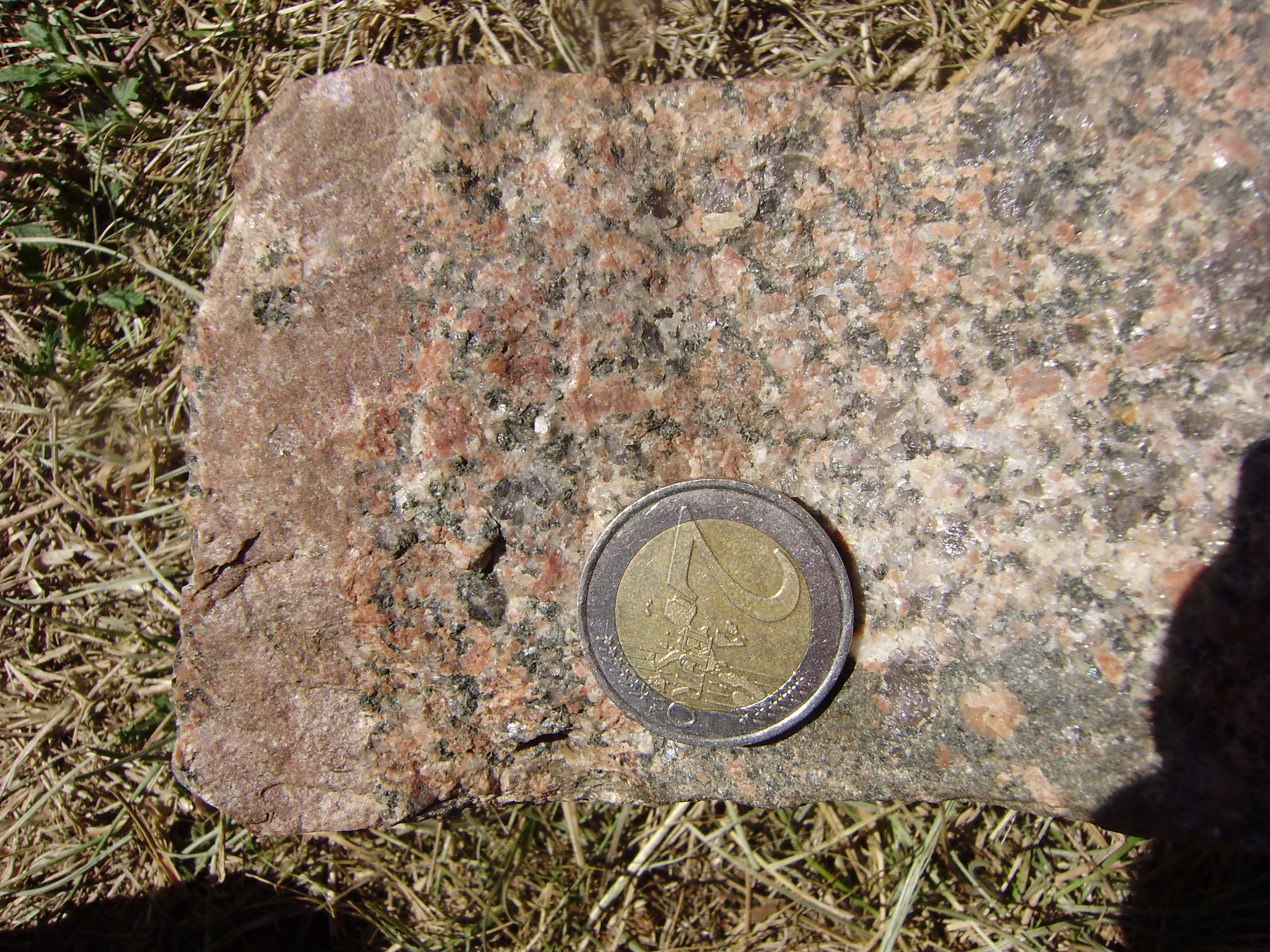 Red facies of the common Piégut-Pluviers granodiorite, northwestern Massif Central, France. Bordered on its left side by a pink aplite. Near Abjat-sur-Bandiat.